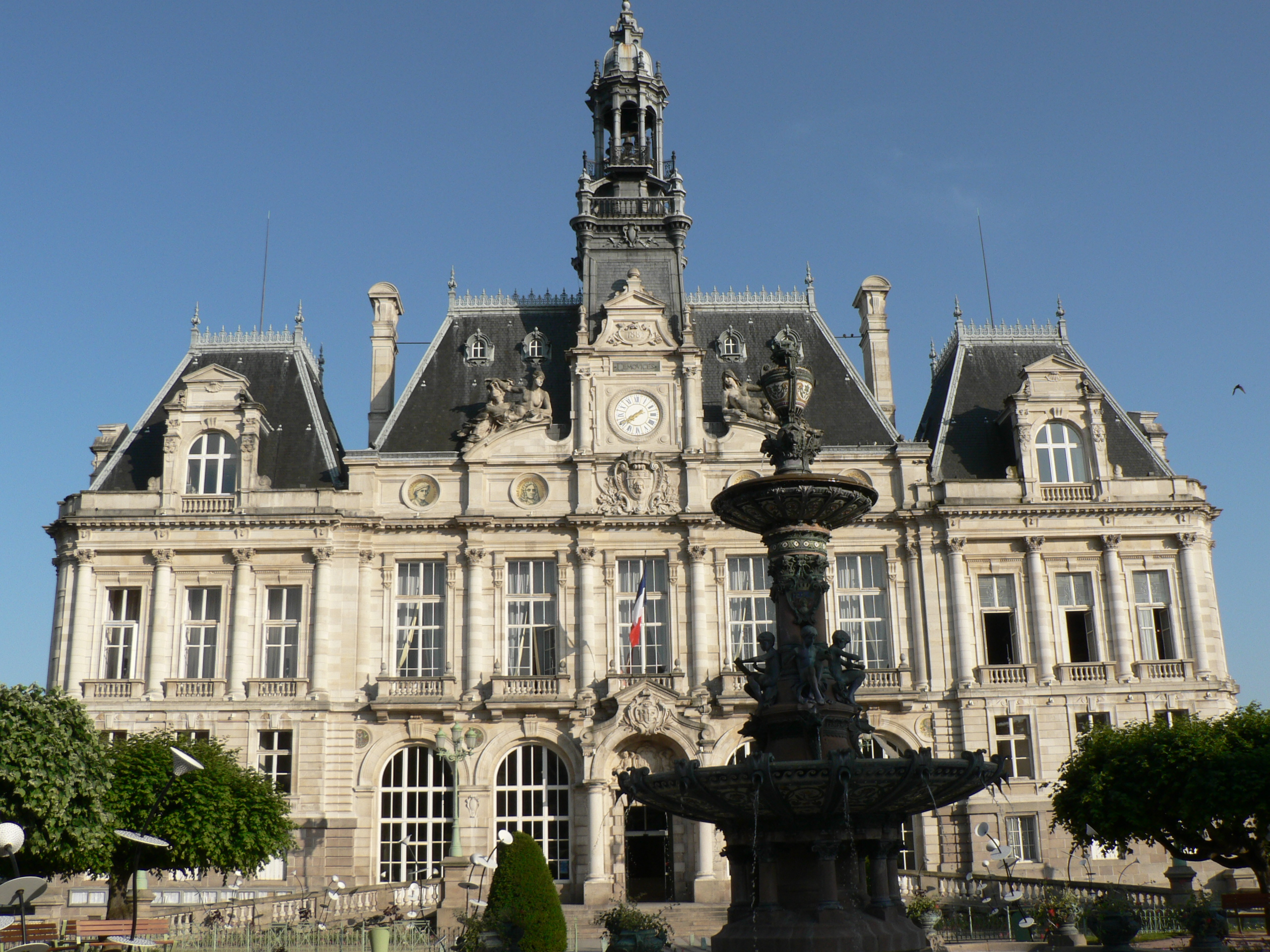 Town Hall, Limoges, France